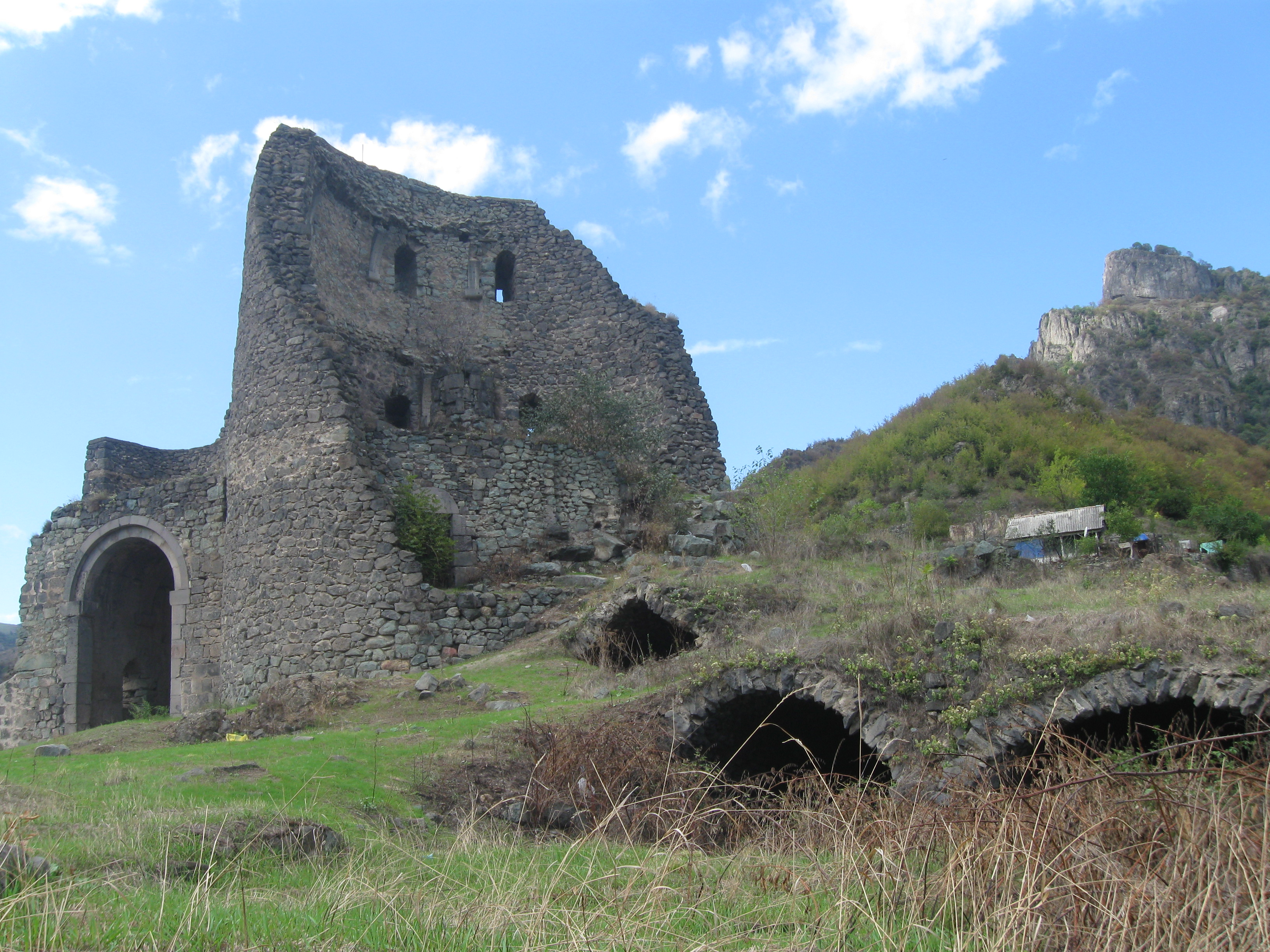 Akhtala Fortress